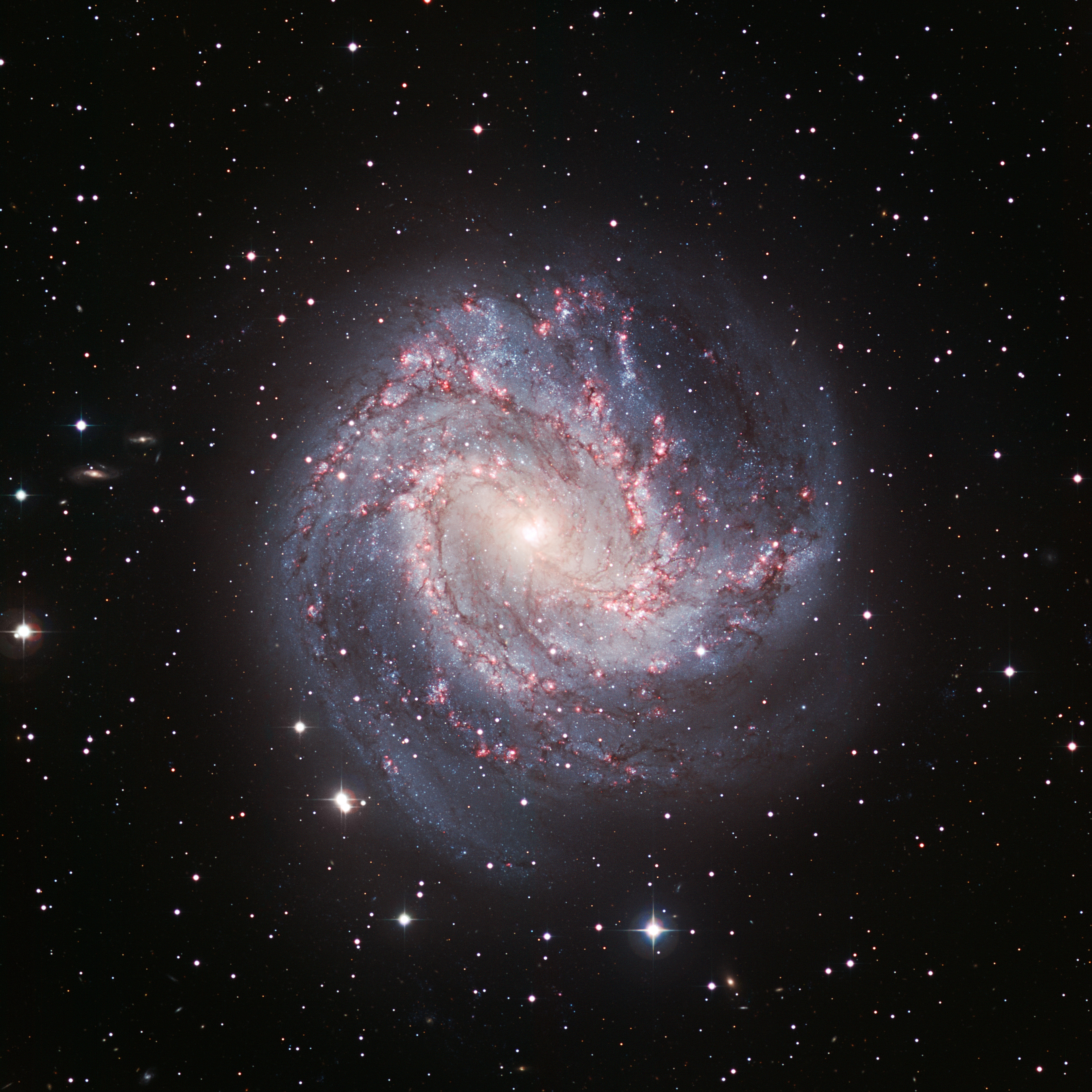 If our Milky Way were to resemble this one, we certainly would be proud of our home! The beautiful spiral galaxy Messier 83 [4] is located in the southern constellation Hydra (the Water Snake) and is also known as NGC 5236 and as the Southern Pinwheel galaxy. Its distance is about 15 million light-years. Being about twice as small as the Milky Way, its size on the sky is 11x10 arcmin2.. The image show clumpy, well-defined spiral arms that are rich in young stars, while the disc reveals a complex system of intricate dust lanes. This galaxy is known to be a site of vigorous star formation.